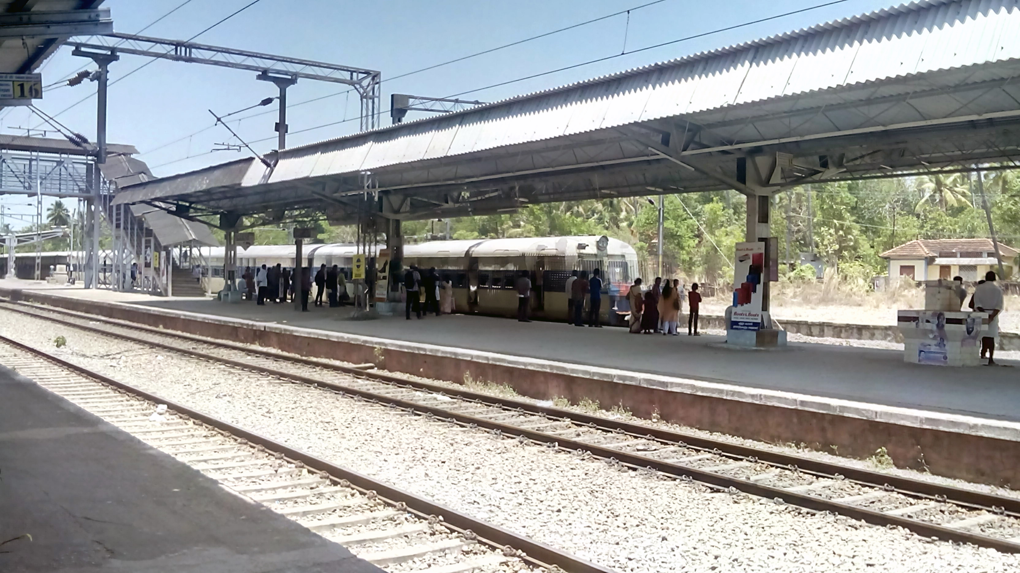 Kollam-Kanyakumari MEMU is arriving at Platform Number-3 of Paravur Railway Station